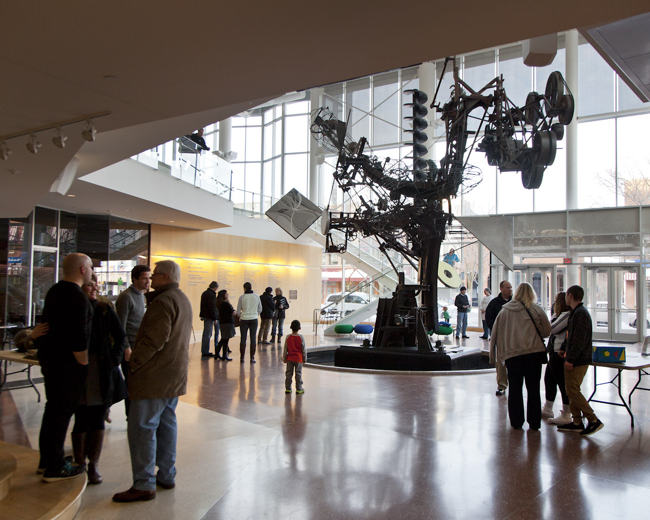 The fourth Tuesday of every month is dedicated to Jean Tinguely's sculpture "Chaos 1"